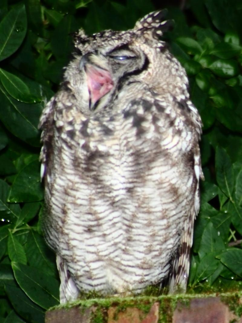 Spotted Eagle-owl Bubo africanus Yawning